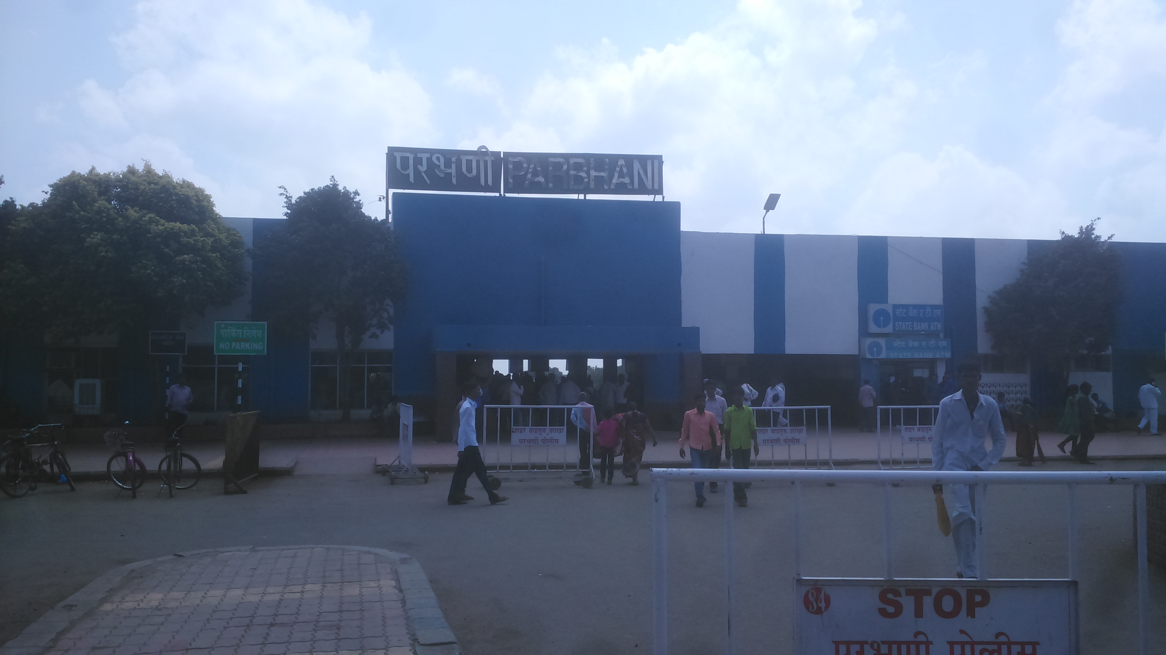 Picture of Parbhani railway station taken from outside